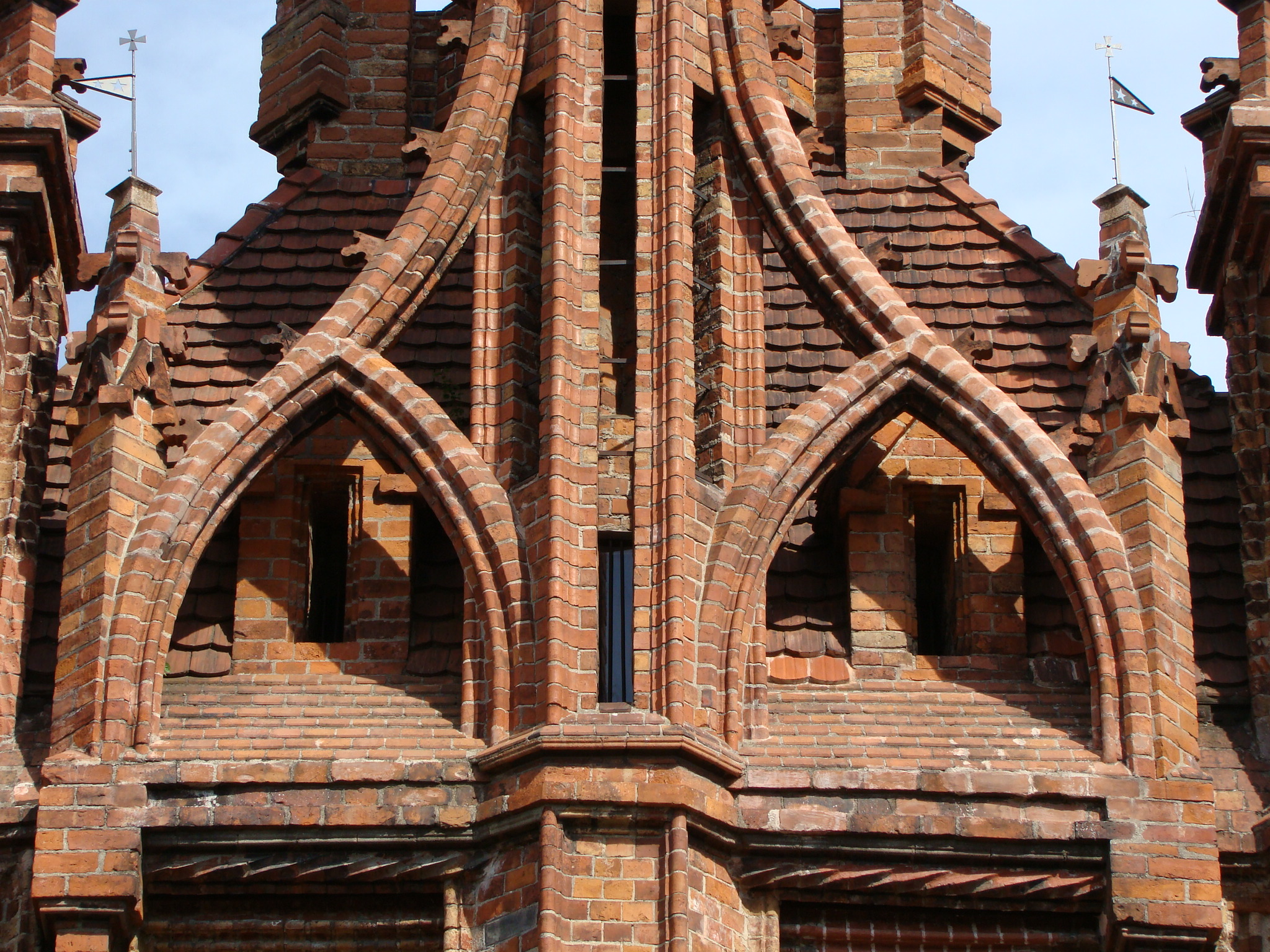 Part of fasade of St. Anne Church in Vilnius.